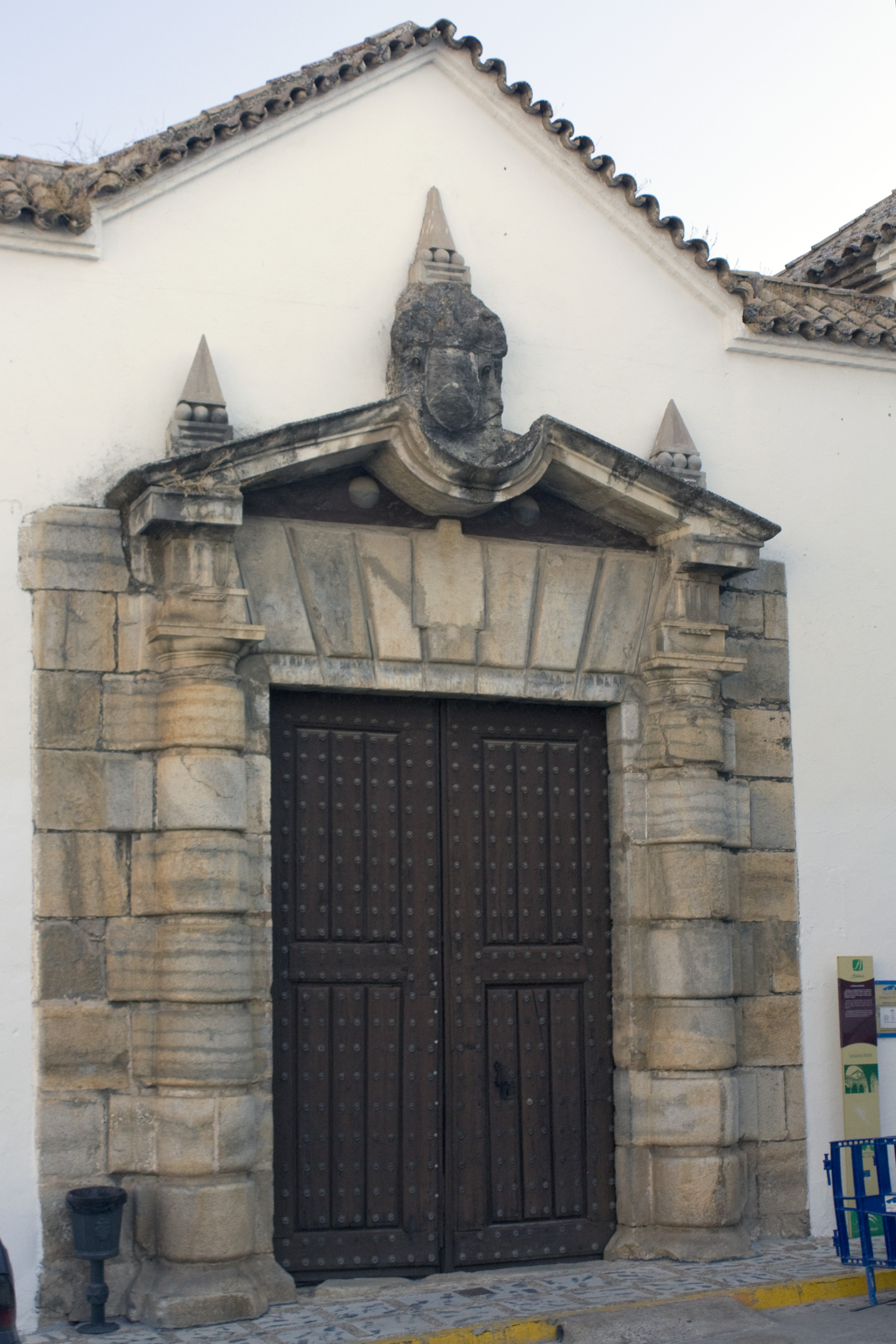 Royal butcheries.